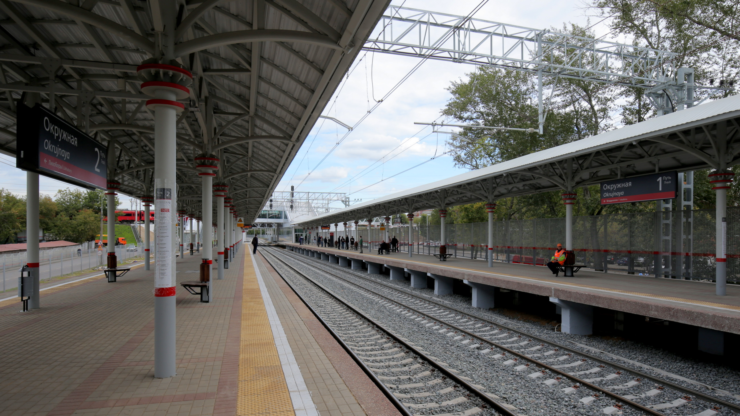 "Okruzhnaya" station of Moscow Railway Ring